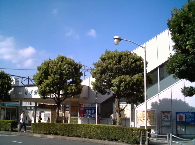 The south entrance of Kotesashi Station in Tokorozawa, Saitama Prefecture, Japan